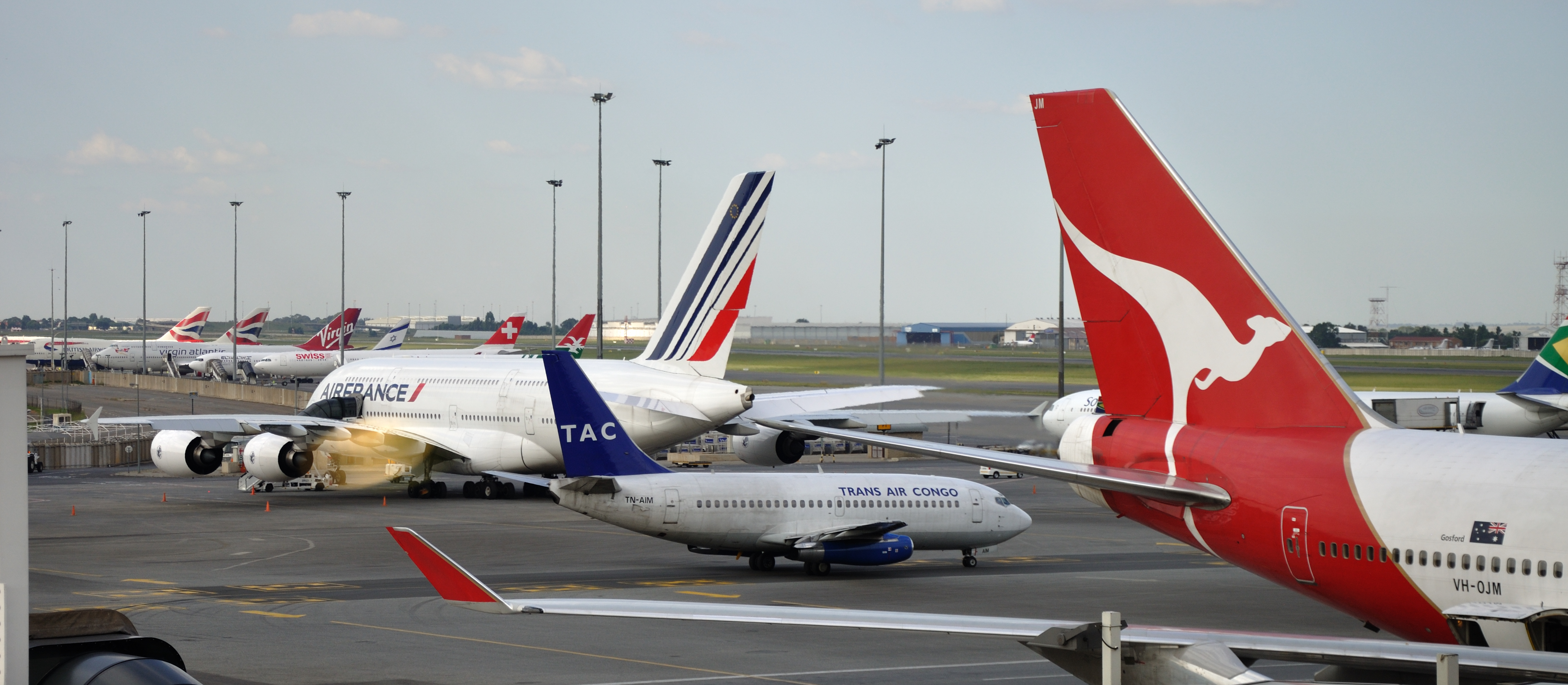 South Africa, spotting at OR Tambo Intl. Airport in Johannesburg